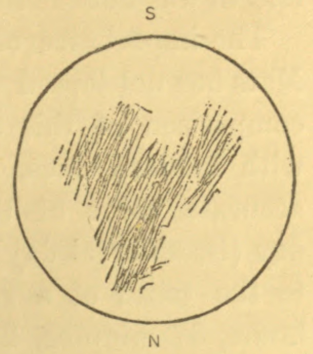 Huyghens' drawing of the Syrtis Major, Nov. 28, 1659, from File:Mars - Lowell.djvu